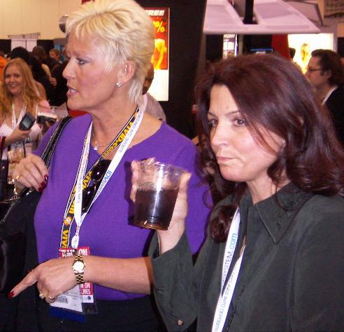 Seka, Laurie Holmes at Internext Pictures on Jan 4, 2005